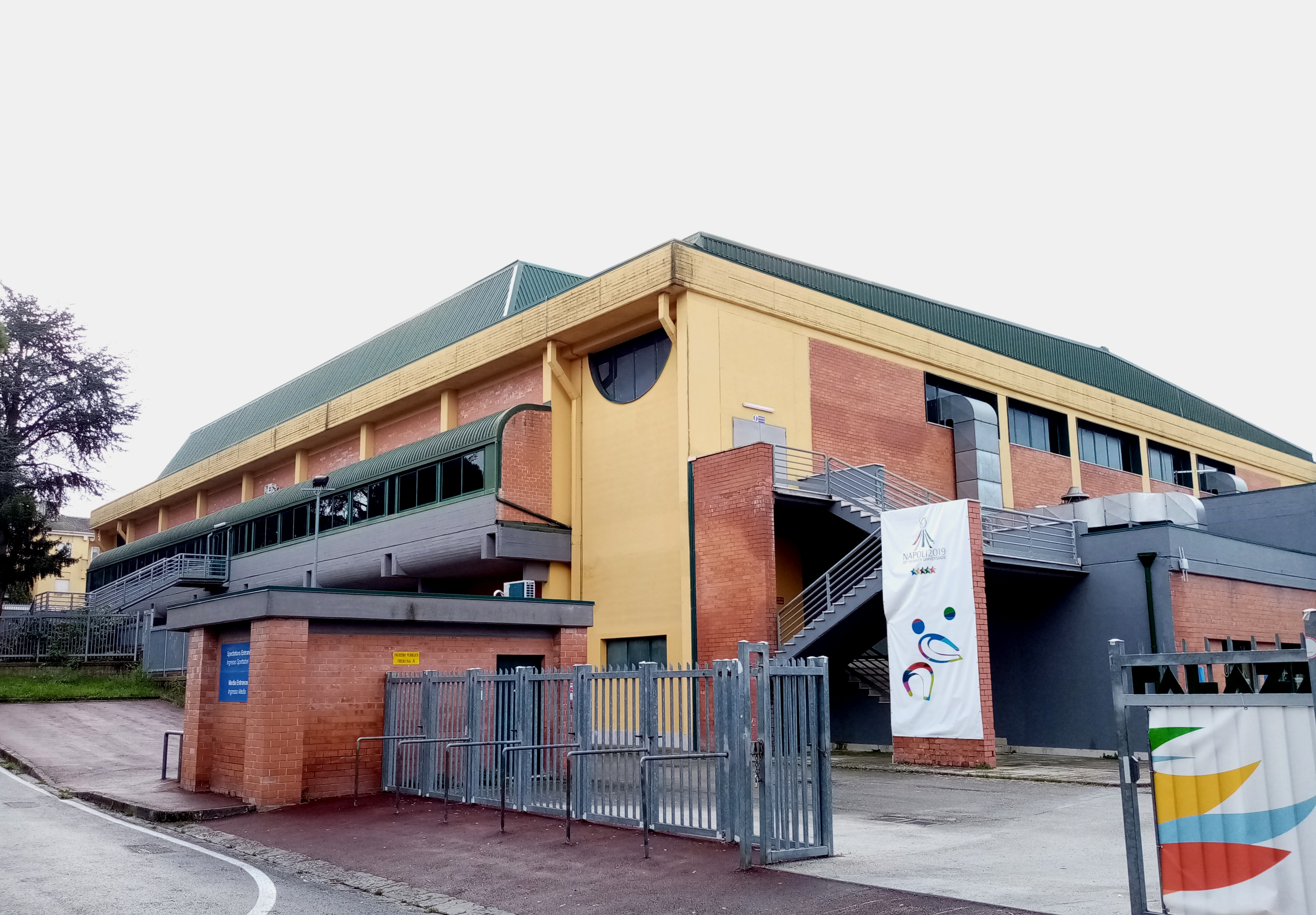 A sports venue in Ariano Irpino, Italy